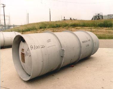 Depleted uranium hexafluoride is placed in large steel cylinders for storage. The most common storage cylinders have a 48 inch diameter